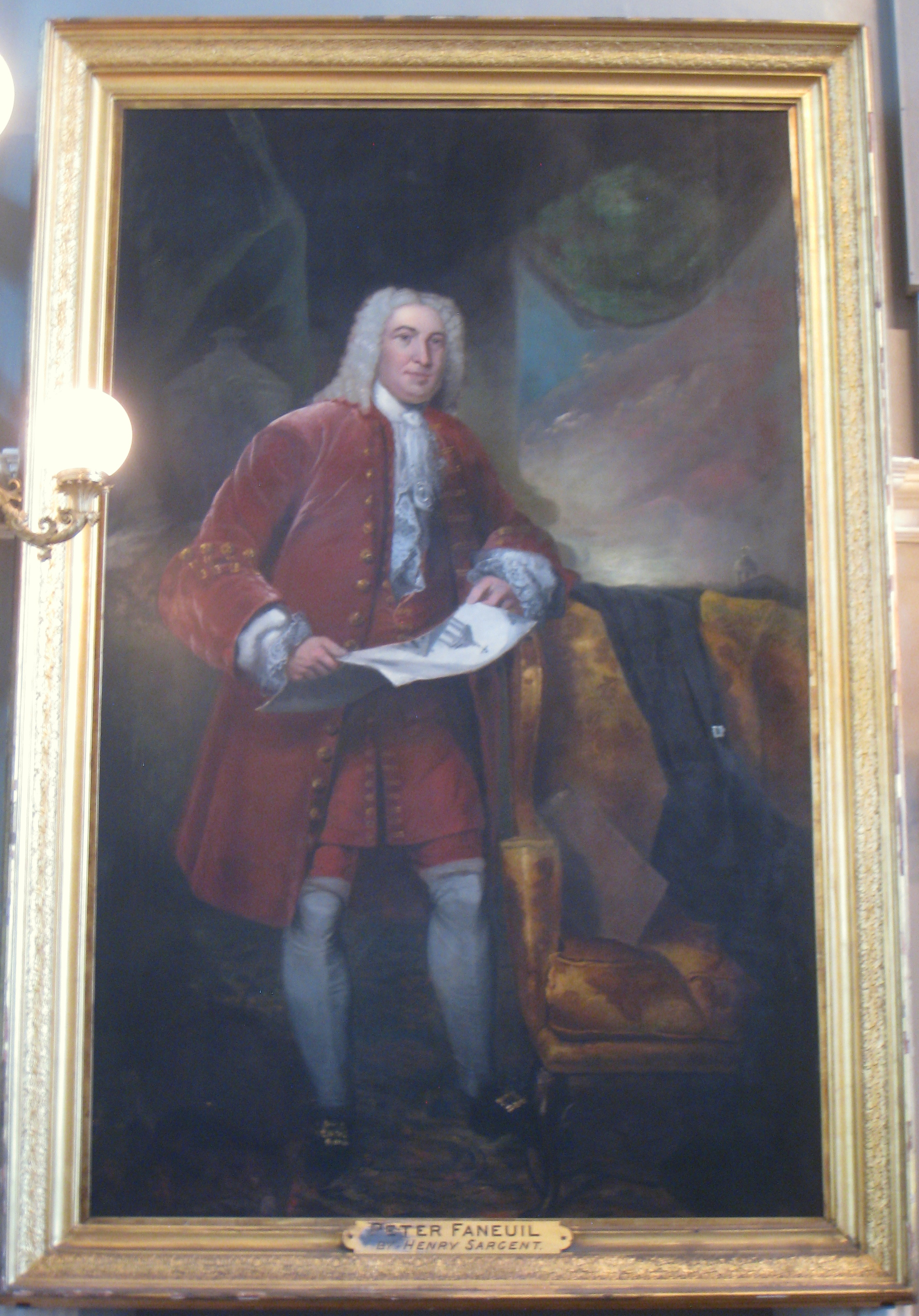 Peter Faneuil by John Smibert (copy by Henry Sargent), located within Faneuil Hall, Boston, Massachusetts, USA.